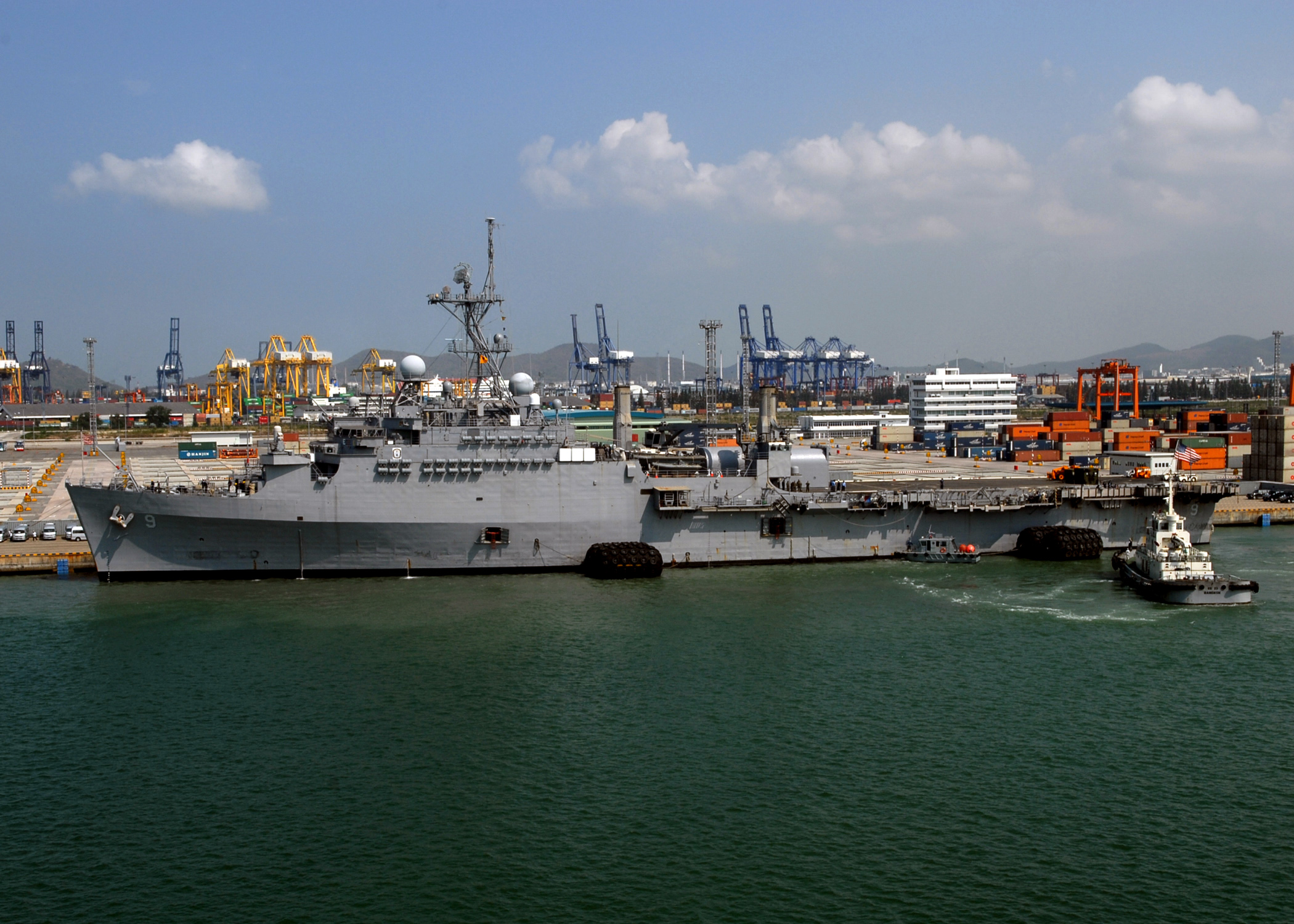 LAEM CHABANG, Thailand (Feb. 15, 2010) The amphibious transport dock ship USS Denver (LPD 9) pulls into Laem Chabang for a scheduled port visit after completing Cobra Gold 2010. Cobra Gold is a joint and coalition multinational exercise hosted annually by the Kingdom of Thailand. (U.S. Navy photo by Mass Communication Specialist 1st Class Geronimo Aquino/Released)